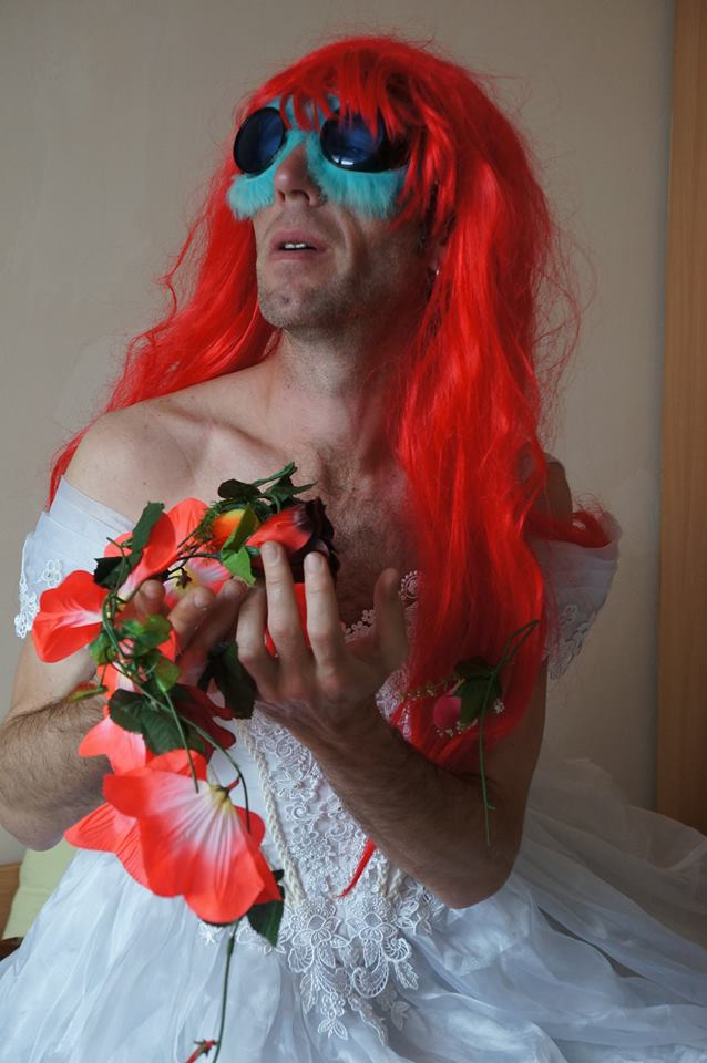 Фотосессія гурту "Рапани" на острові Бірючий